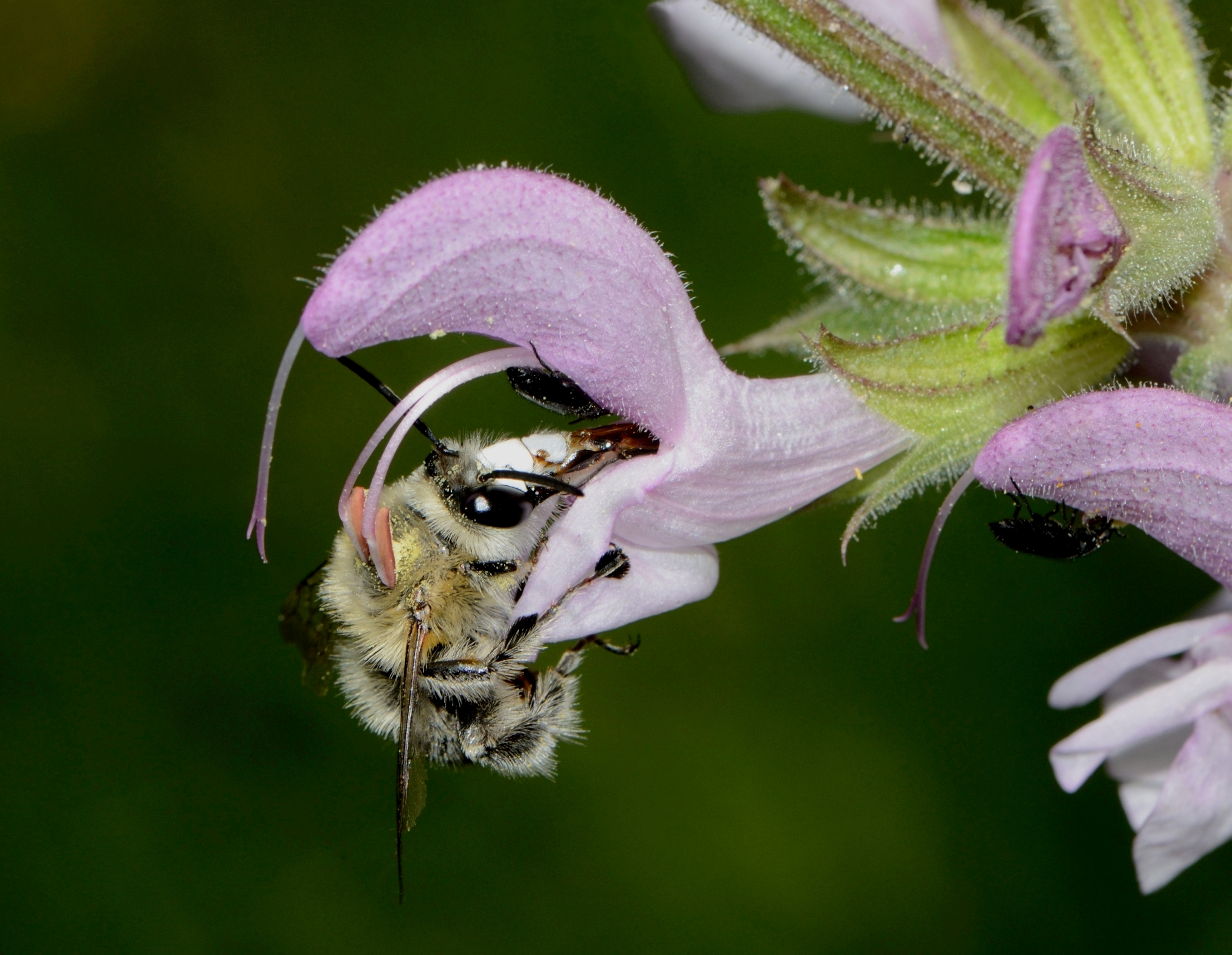 Anthophora dufourii Lepeletier, 1841 (Det. Achik Dorchin 2012), male collecting nectar and pollinating Salvia hierosolymitana, Mount Carmel, Israel, April 10, 2012. Many Salvia species deploy a staminal lever mechanism: when a bee probes the flower for nectar, the stamens are lowered to deposit pollen on the bee's back. Note that the front leg of the bee is amputated.